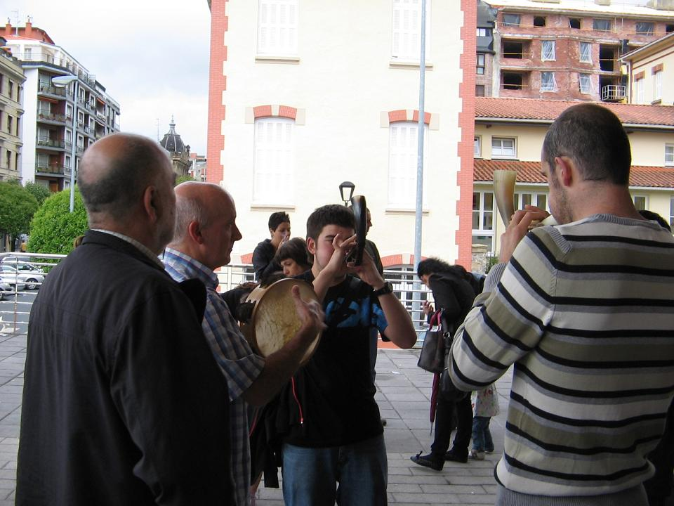 Alboka players gather round to play in Hernani's Txalaparta Festival